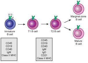 Transitional B cell development: from immature B cell to marginal zone B cell or mature (follicular) B cell.